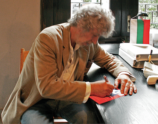 Nikola Manev giving an autograph at the Sofia city art gallery